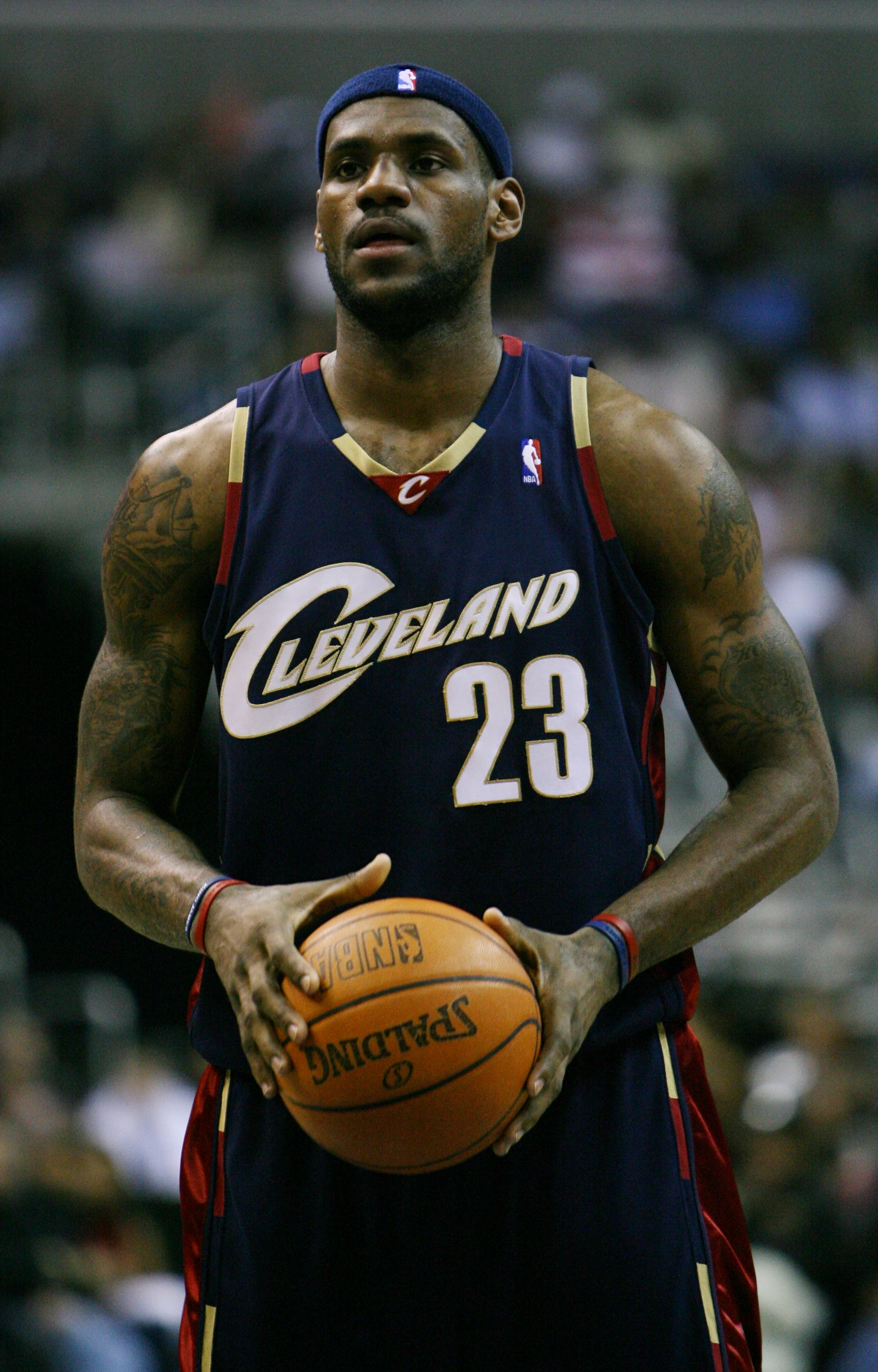 LeBron James playing with the Cleveland Cavaliers in 2007